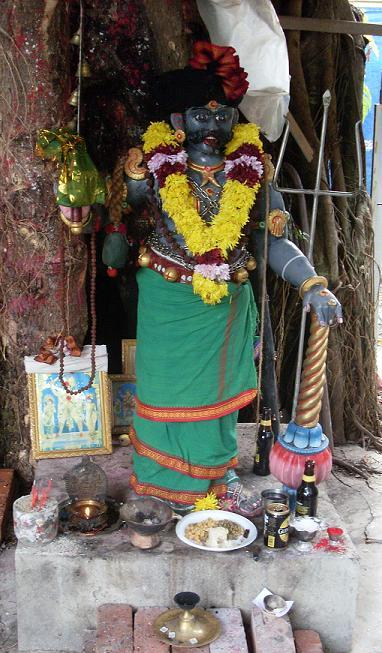 Statue of Sangili Karuppan at the Sri Maha Muniswarar Temple, Ampang, Malaysia.